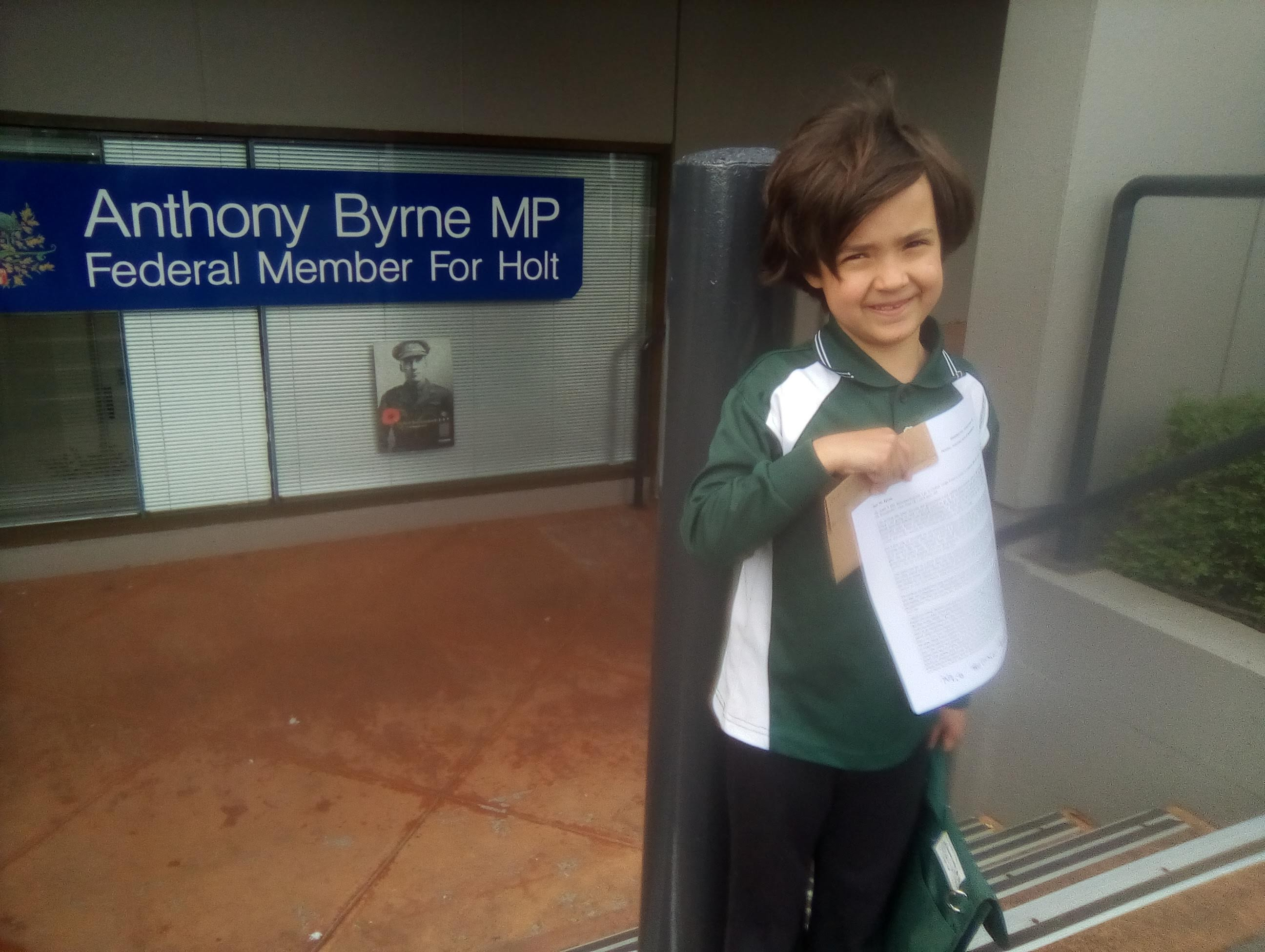 Mia Weinman-Koksvik aged 6 from Chalcot Lodge Primary School and personally delivered a letter to her MP Anthony Byrne's office and spoke to his policy advicor Nick McLennan